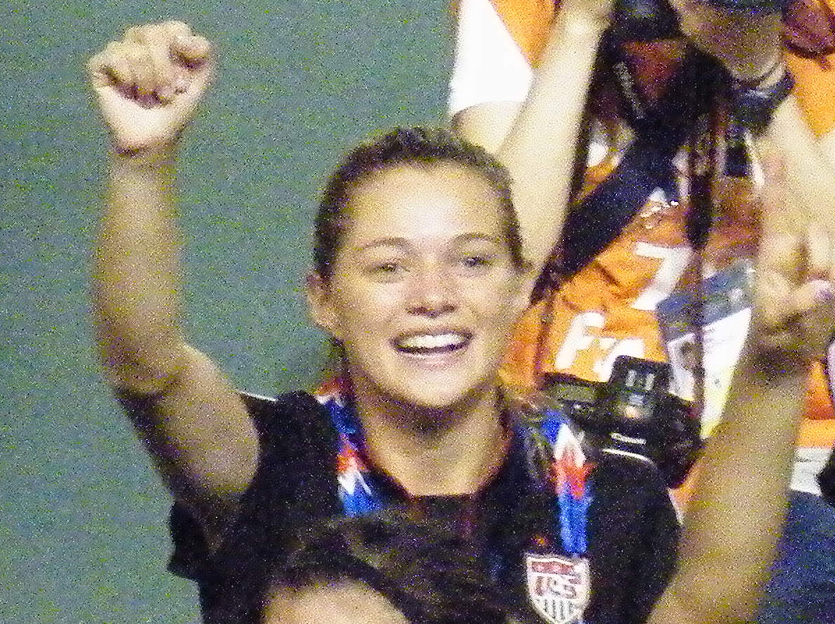 FIFA U-20 Women's World Cup 2012 Awards Ceremony. 7-Kealia Ohai